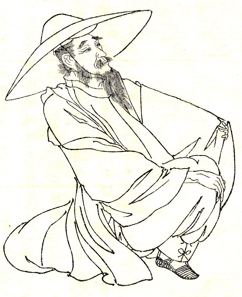 Picture from a serie of the 36 immortal poets